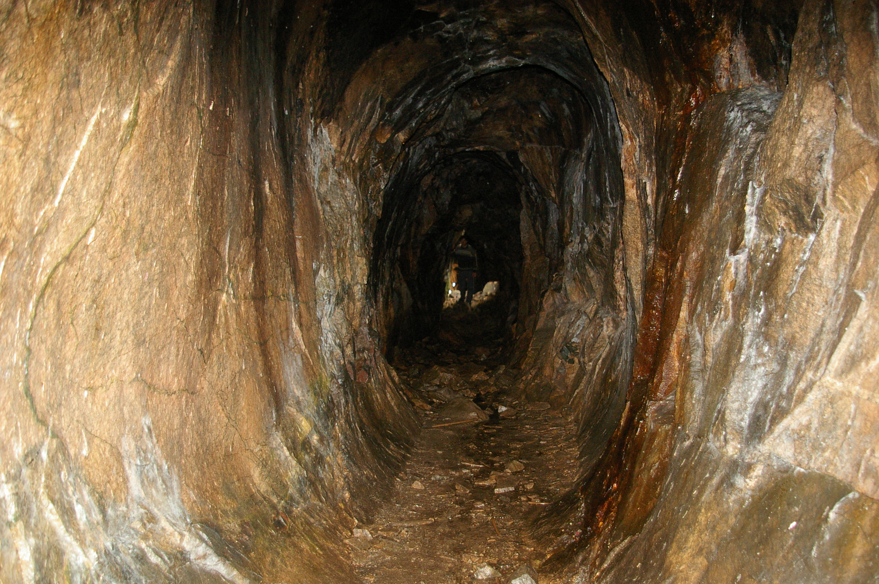 Adit made by fire setting